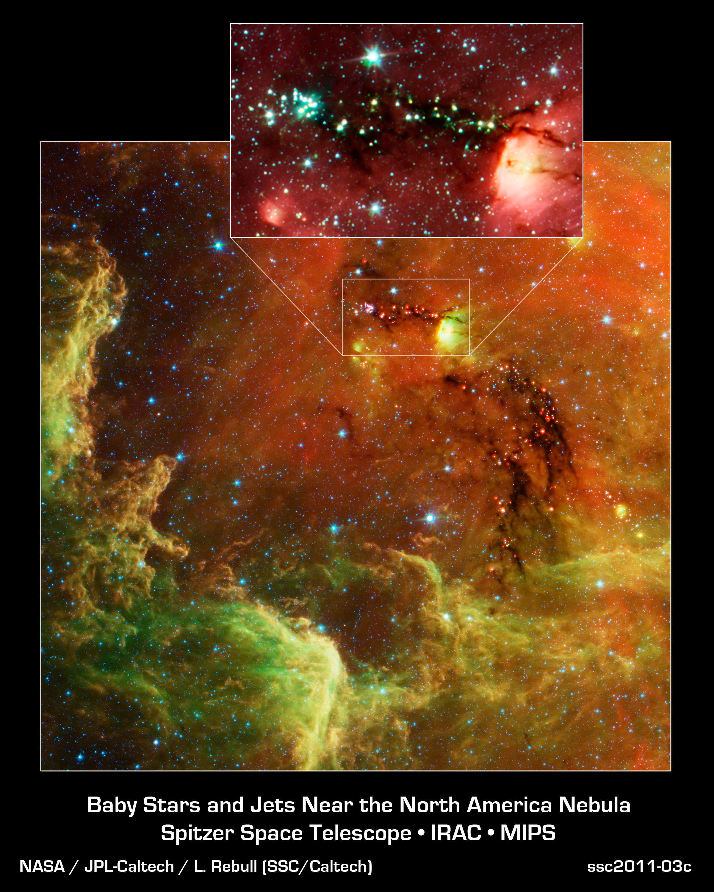 Stars at all stages of development, from dusty little tots to young adults, are on display in a new image from NASA's Spitzer Space Telescope. The cosmic community is called the North America nebula. In visible light, the region resembles the North America continent, with the most striking resemblance being the Gulf of Mexico. But in Spitzer's infrared view, the continent disappears. Instead, a swirling landscape of dust and young stars comes into view. This image focuses in on the Gulf of Mexico cluster of young stars. Several hundred young stars, seen here as the red dots, huddle together along their natal dark cloud -- what can be seen as the dark "river." In the main image, data from both the infrared array camera and multiband imaging photometer are included, showing infrared wavelengths of 3.6, 4.5, 5.8, 8, and 24 microns. In the inset, only data from the infrared array camera are shown, including wavelengths of 3.6, 4.5, 5.8, and 8 microns. The inset highlights jets from young stars, seen as green streaks near the stars.